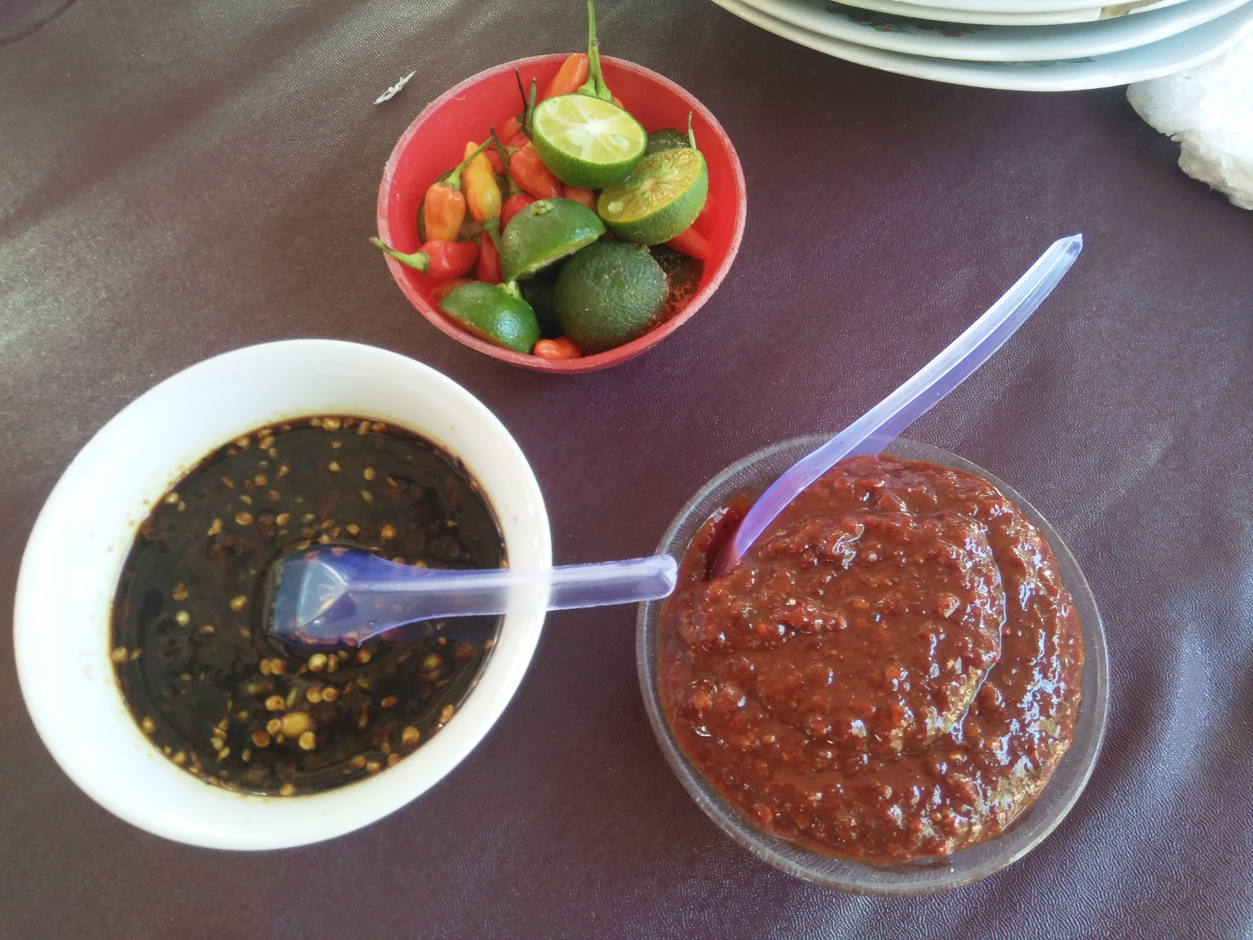 sambal terasi and soysauce, sauces produced in Bangka Island.